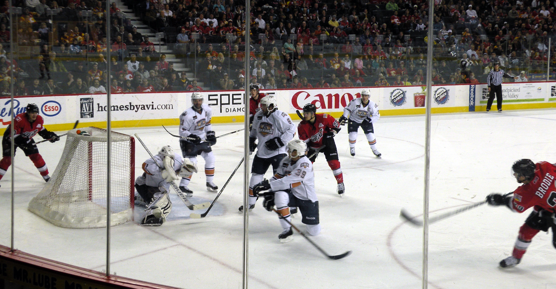 The Abbotsford Heat host the Oklahoma City Barons in an American Hockey League game at the Scotiabank Saddledome in Calgary.